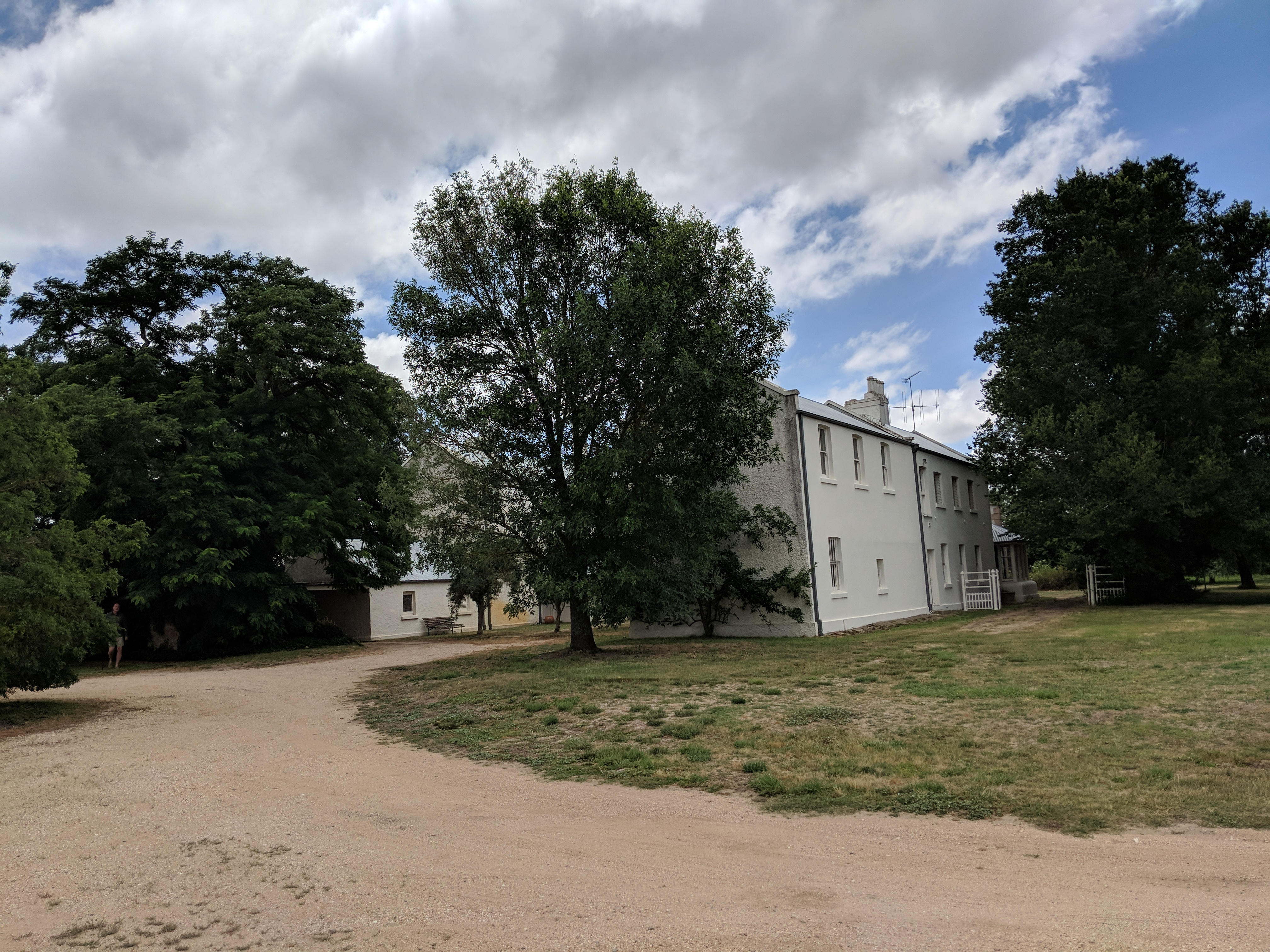 Wollogorang House